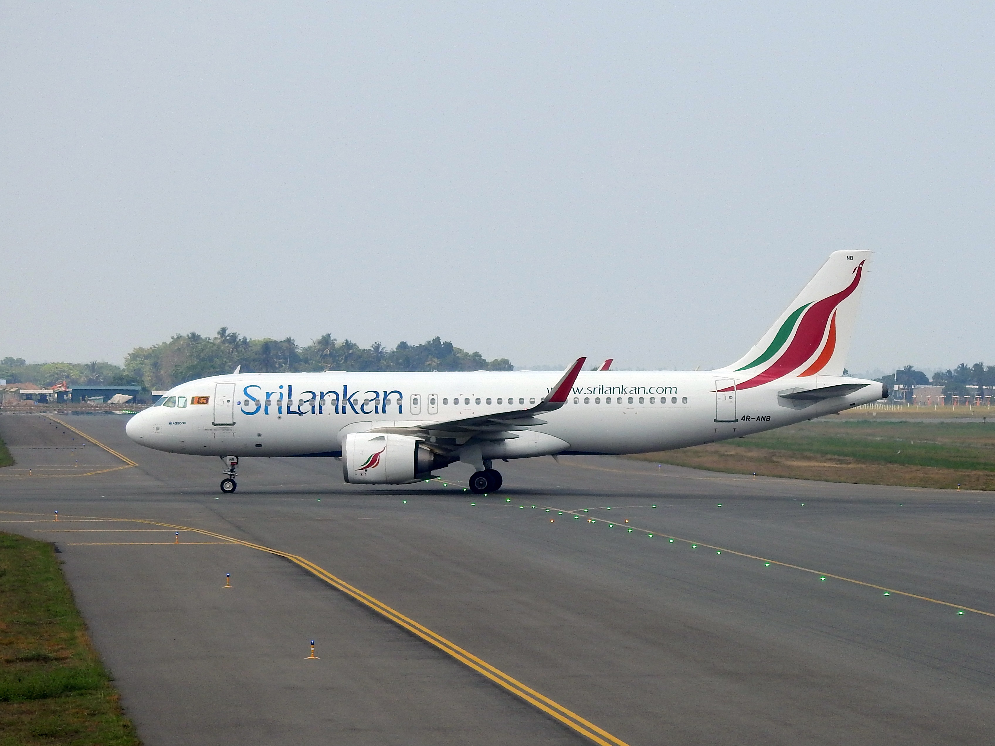 Airbus A320 of Sri Lankan Airlines in Bandaranaike International Airport (4R-ANB).